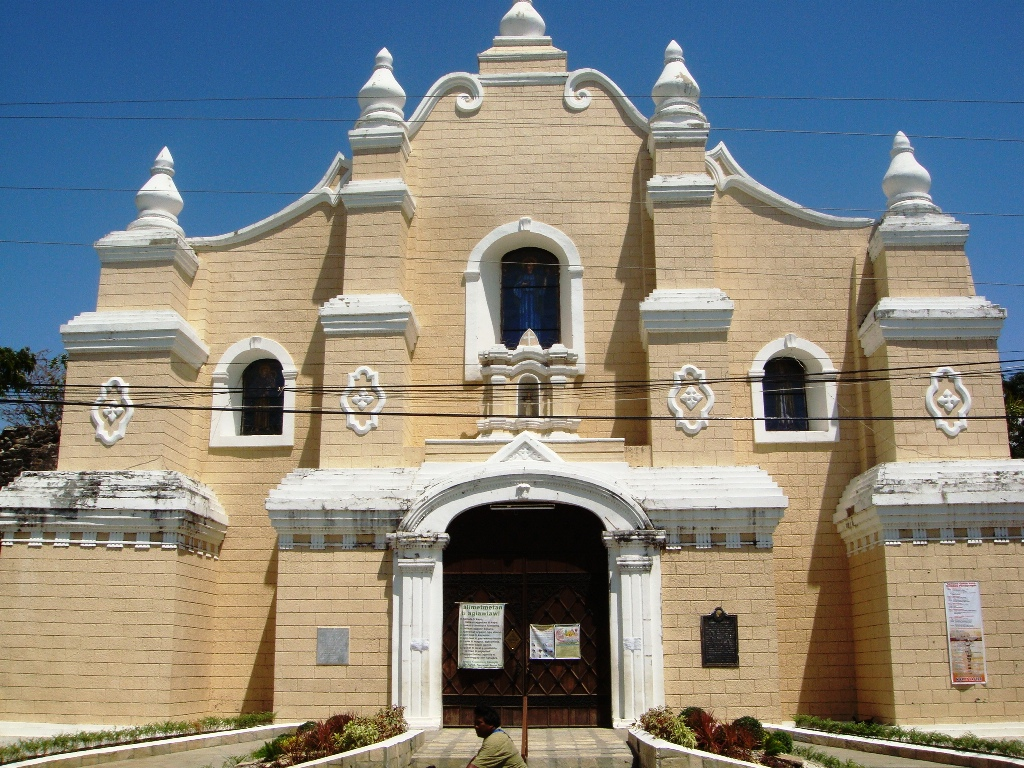 Narvacan Church